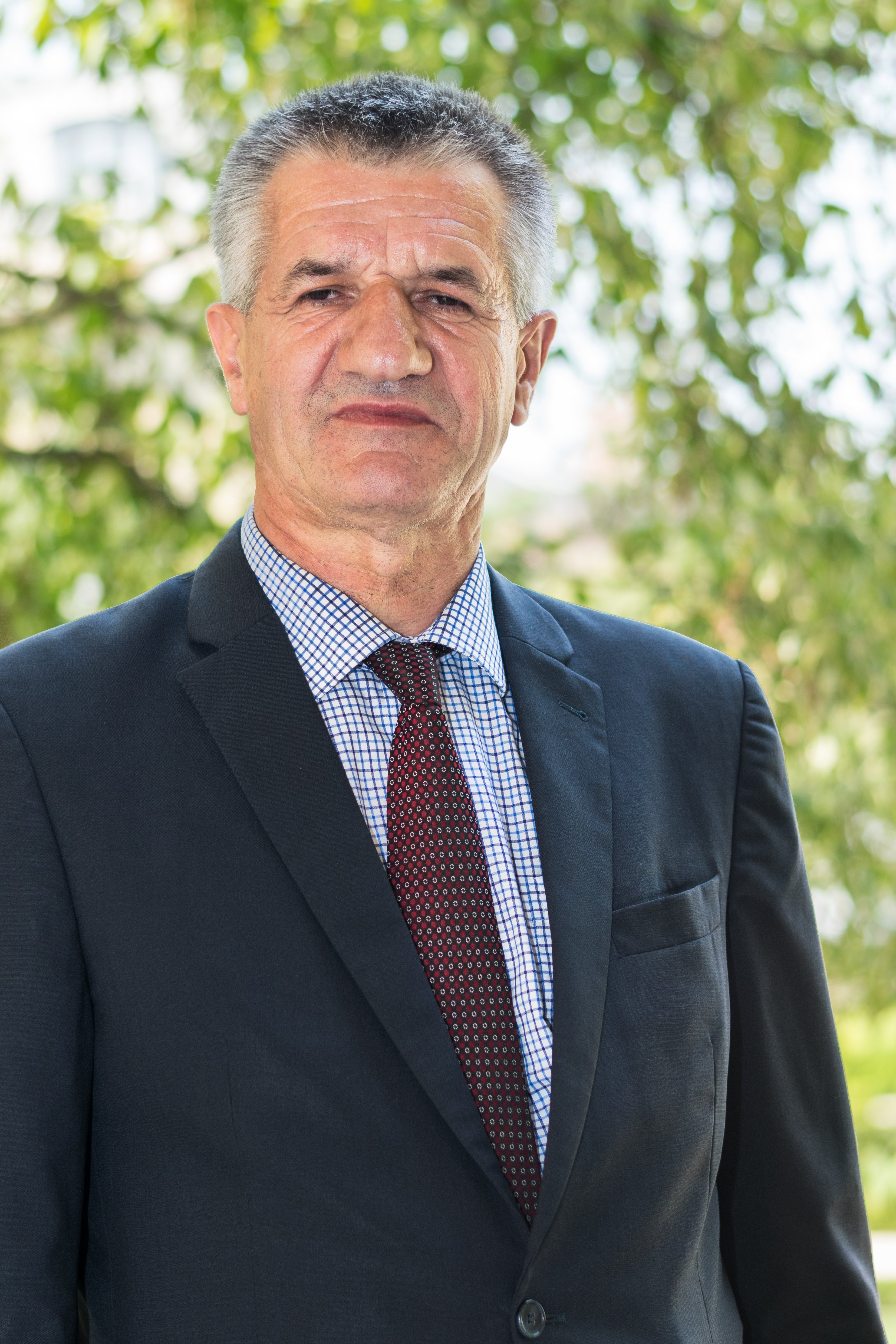 Jean Lassalle in the garden of the Quatres Colonnes in the Palais Bourbon (Paris, France).